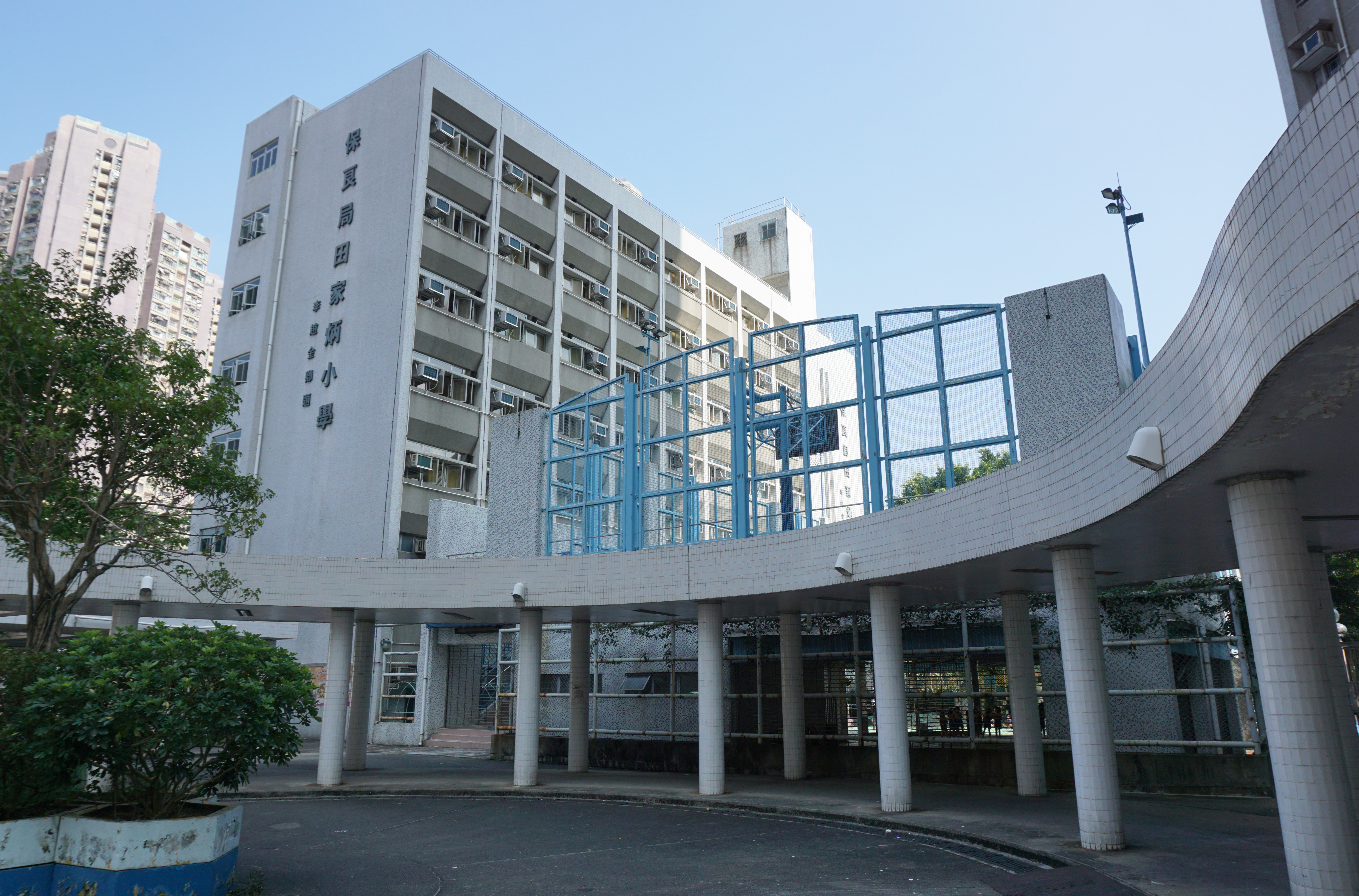 Po Leung Kuk Tin Ka Ping Primary School in Tai Po, Hong Kong.